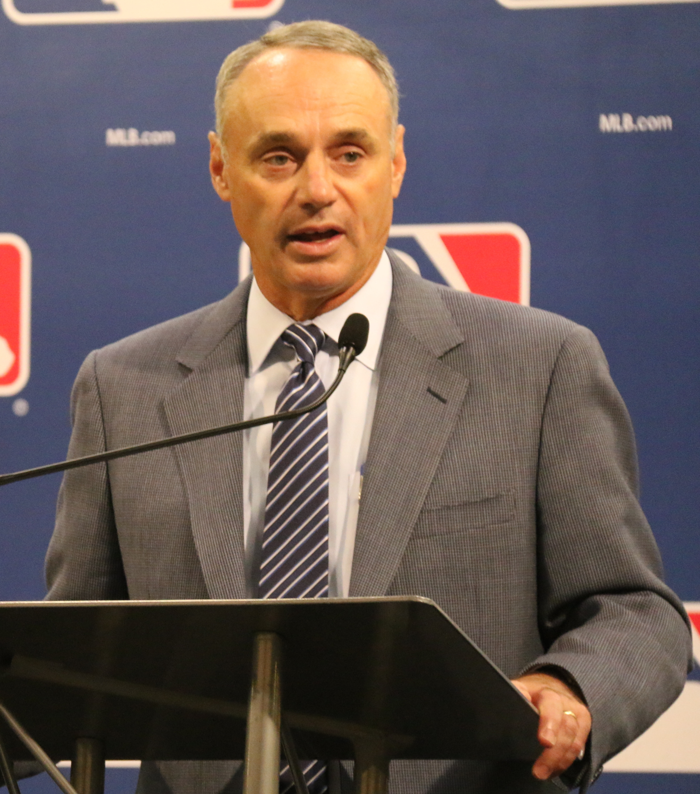 MLB COO Rob Manfred speaks during a press conference at FanFest.